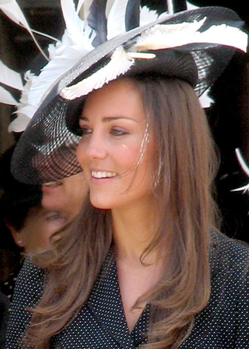 Kate Middleton at the Garter Procession, 2008